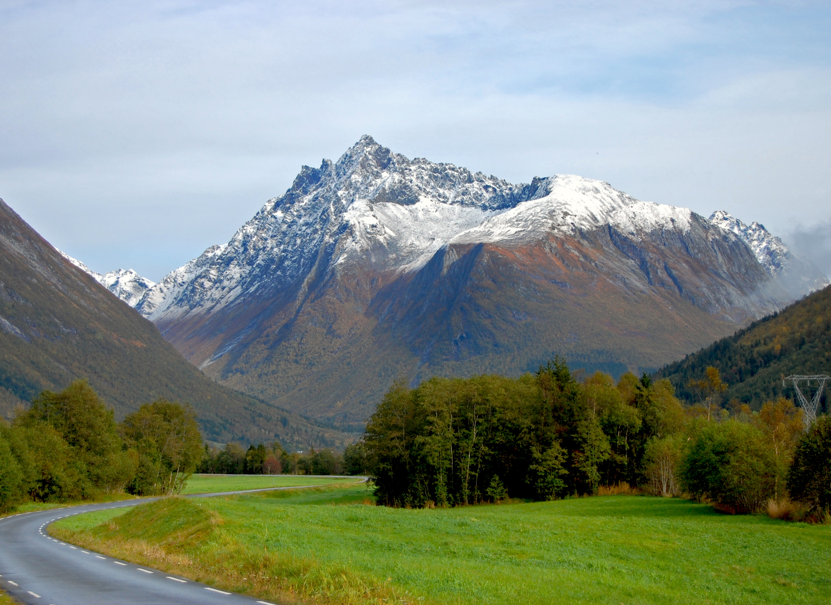 Kolås Headlines from Follestad Valley in October